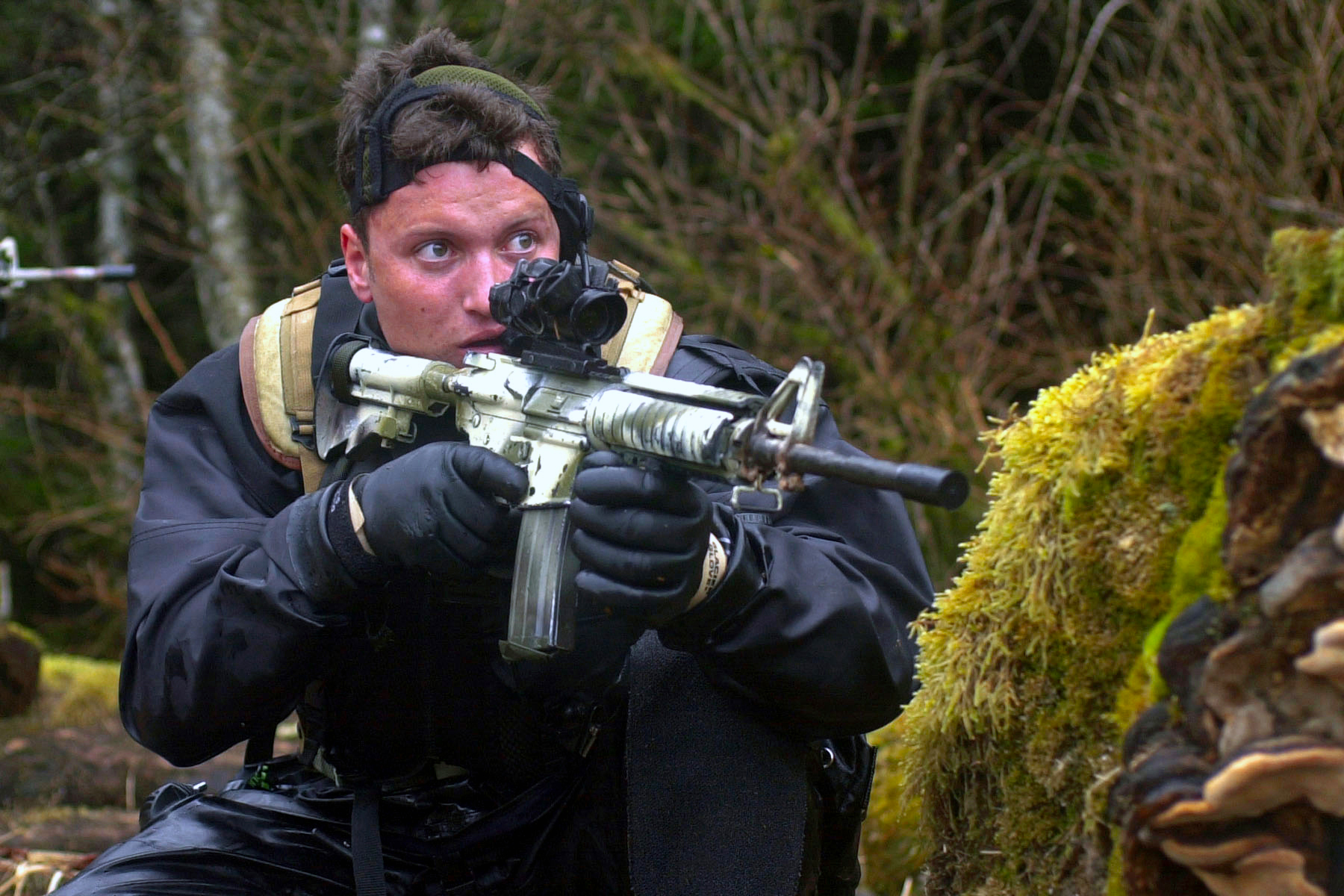 010324-F-1129S-009 SAN Diego, Calif. (Mar. 24, 2001) -- Torpedoman Mate 3rd Class Matt Bissonnette member from Navy Seal Team 5, San Diego, Calif., scans the area as they practice a beach incursion during Northern Edge 2001. US Air Photo by Force Technical Sergeant Brian Snyder. (RELEASED)